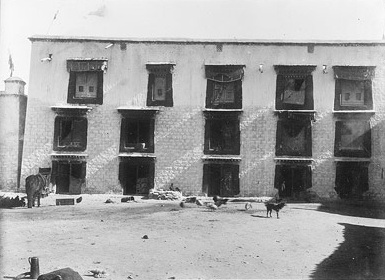 Trimon 's house in Lhasa